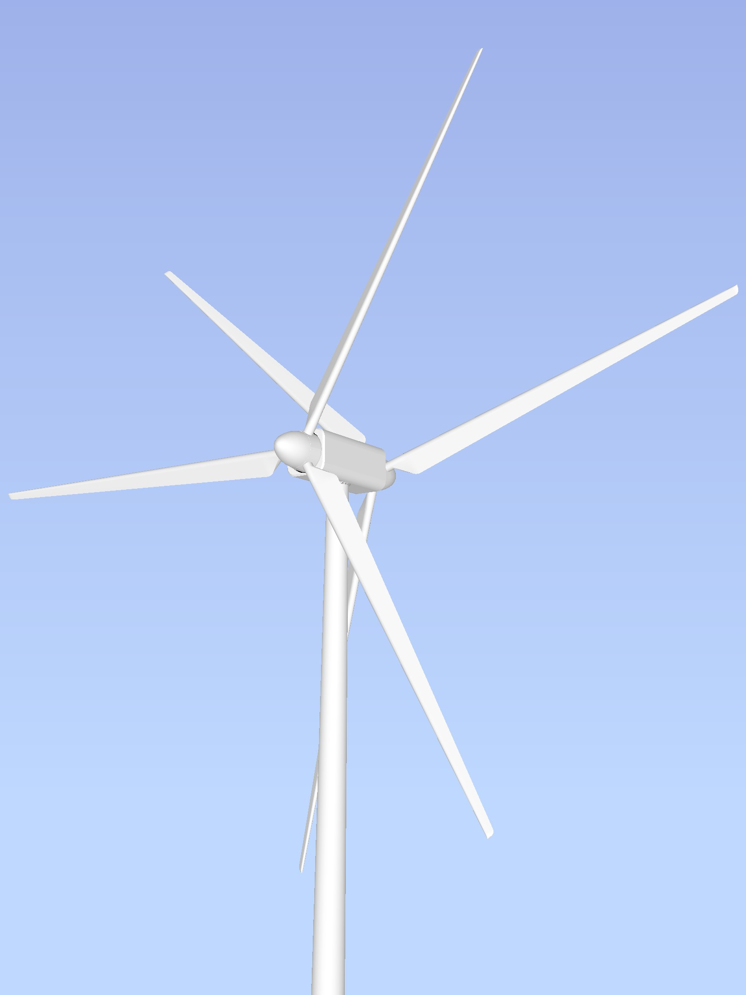 Computer image of a wind turbine with contra-rotating rotors